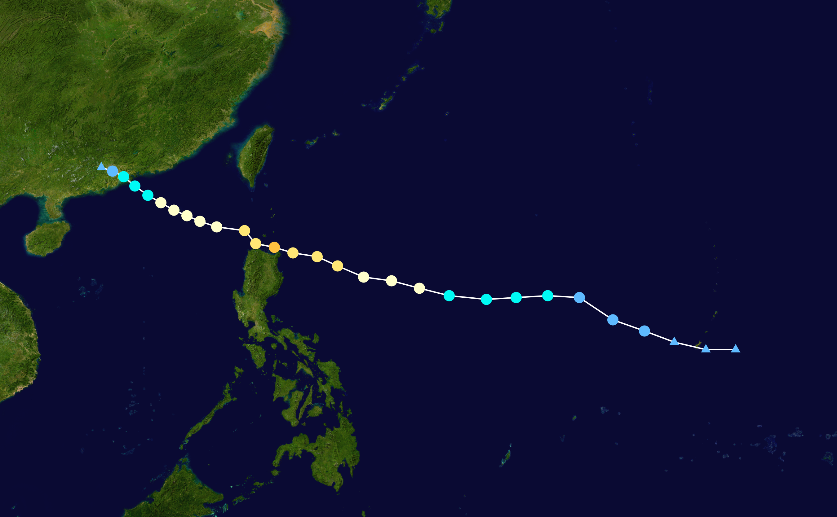 Track map of Typhoon Nuri of the 2008 Pacific typhoon season. The points show the location of the storm at 6-hour intervals. The colour represents the storm's maximum sustained wind speeds as classified in the Saffir–Simpson scale (see below), and the shape of the data points represent the nature of the storm, according to the legend below. Saffir–Simpson scale Tropical depression≤38 mph≤62 km/h Category 3111–129 mph178–208 km/h Tropical storm39–73 mph63–118 km/h Category 4130–156 mph209–251 km/h Category 174–95 mph119–153 km/h Category 5≥157 mph≥252 km/h Category 296–110 mph154–177 km/h Unknown Storm type Tropical cyclone Subtropical cyclone Extratropical cyclone / Remnant low / Tropical disturbance / Monsoon depression